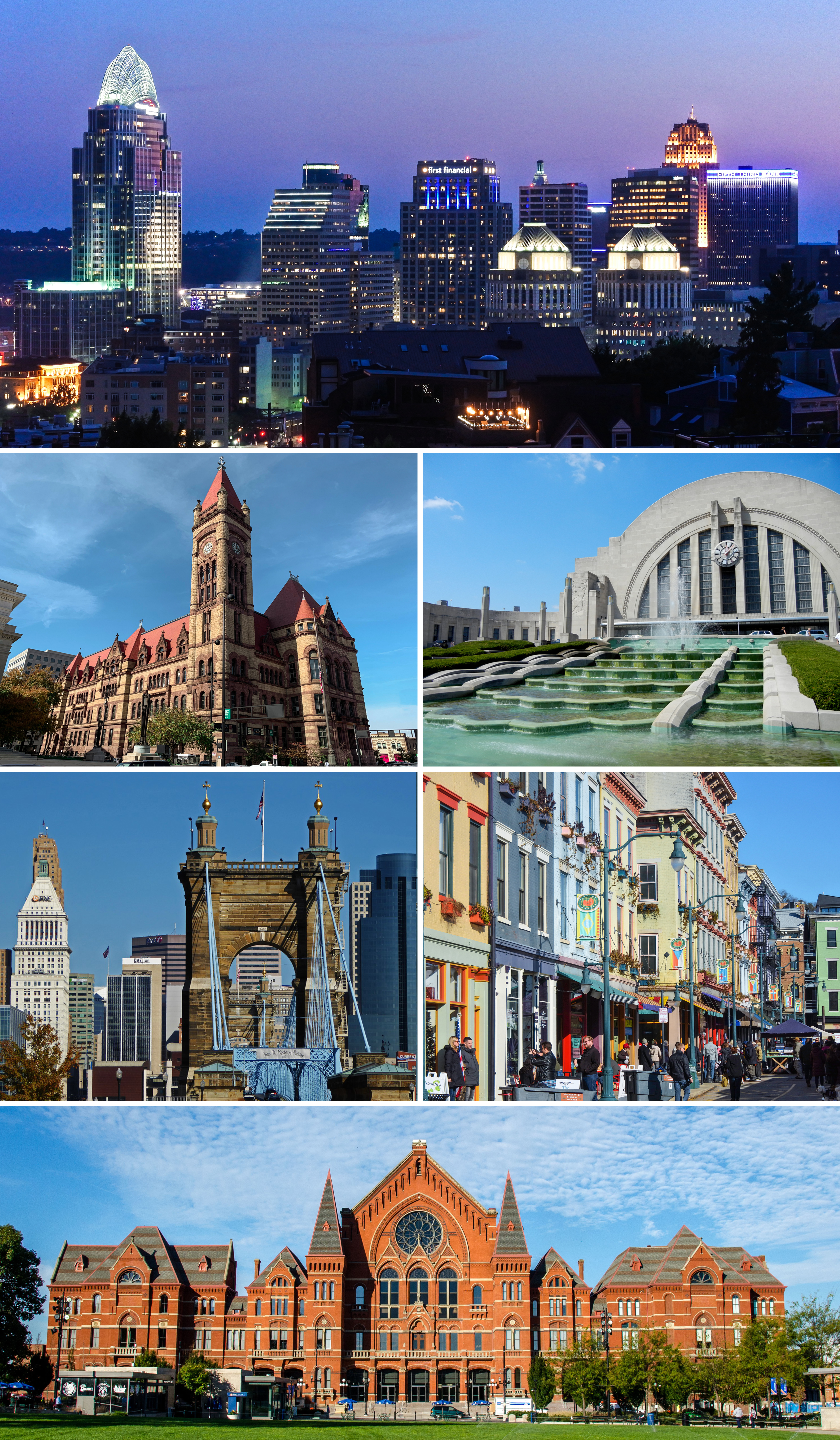 A collection of photos that describe Over-the-Rhine in Cincinnati, Ohio. (Note: all photos are available at Wikimedia Commons). Downtown Cincinnati Cincinnati Union Terminal Over-the-Rhine Cincinnati Music Hall Roebling Suspension Bridge Cincinnati City Hall